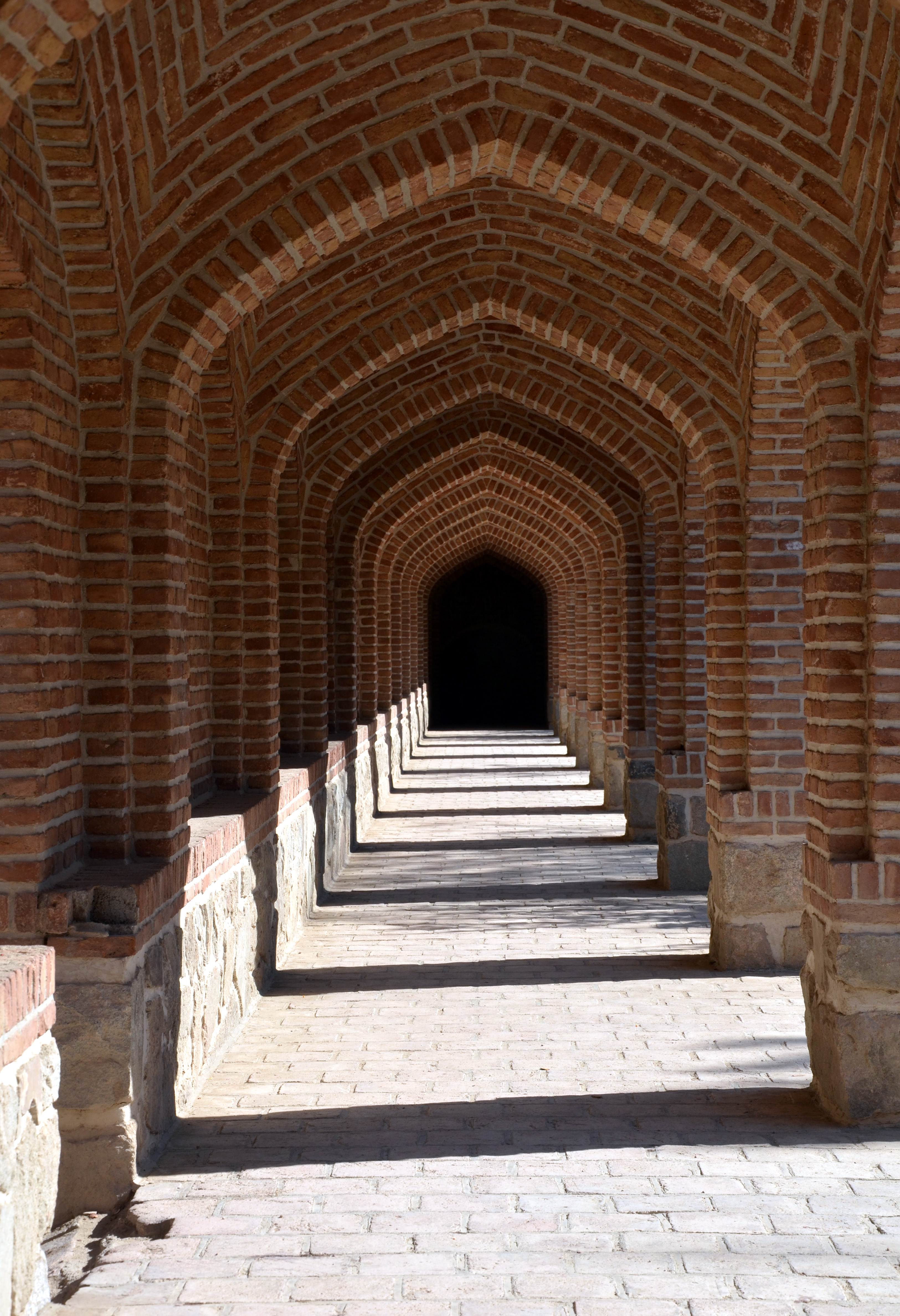 Aras - Kordasht - Old bath